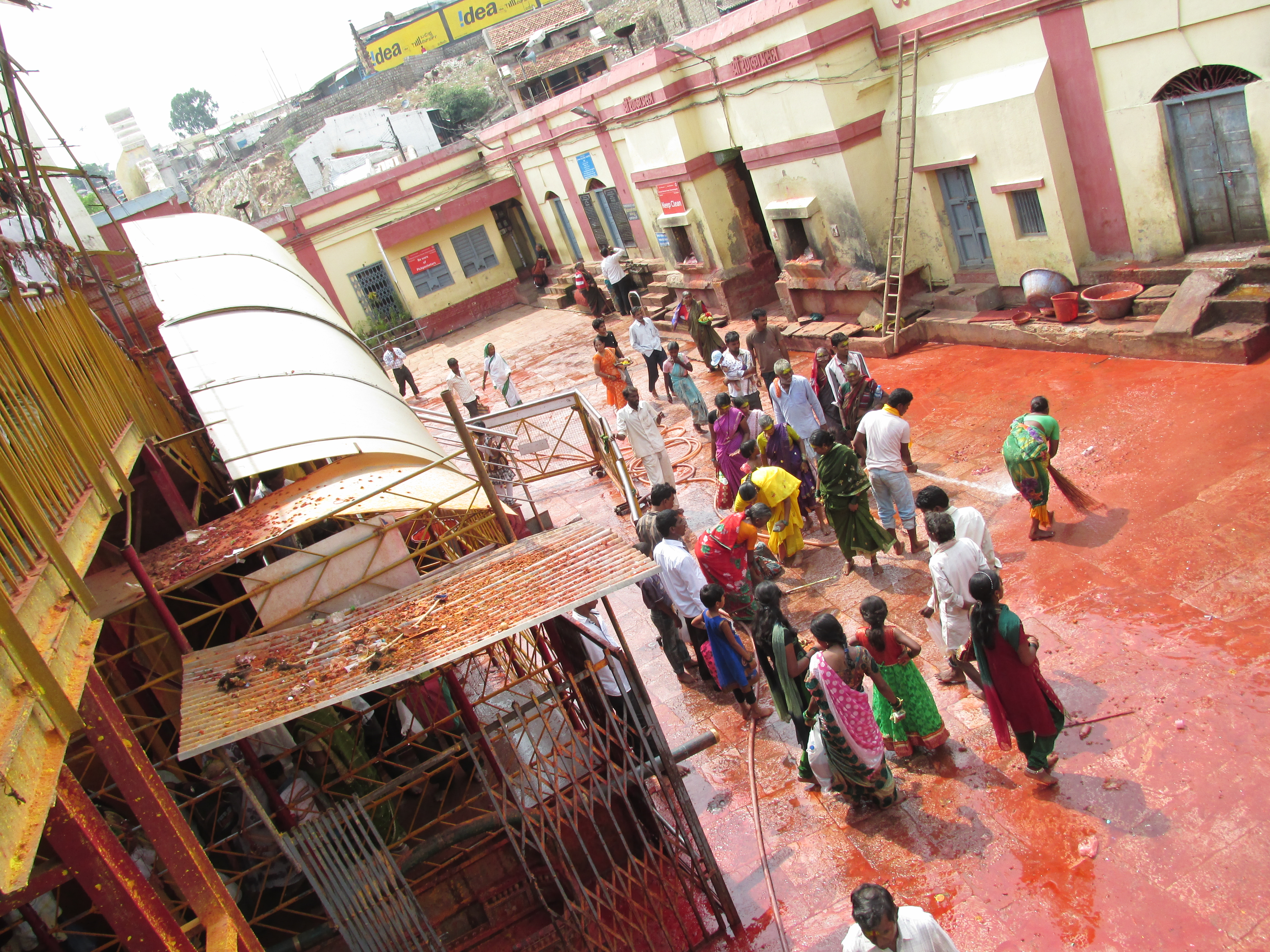 Large temple in bed of Krishna and small temple of Yellamma